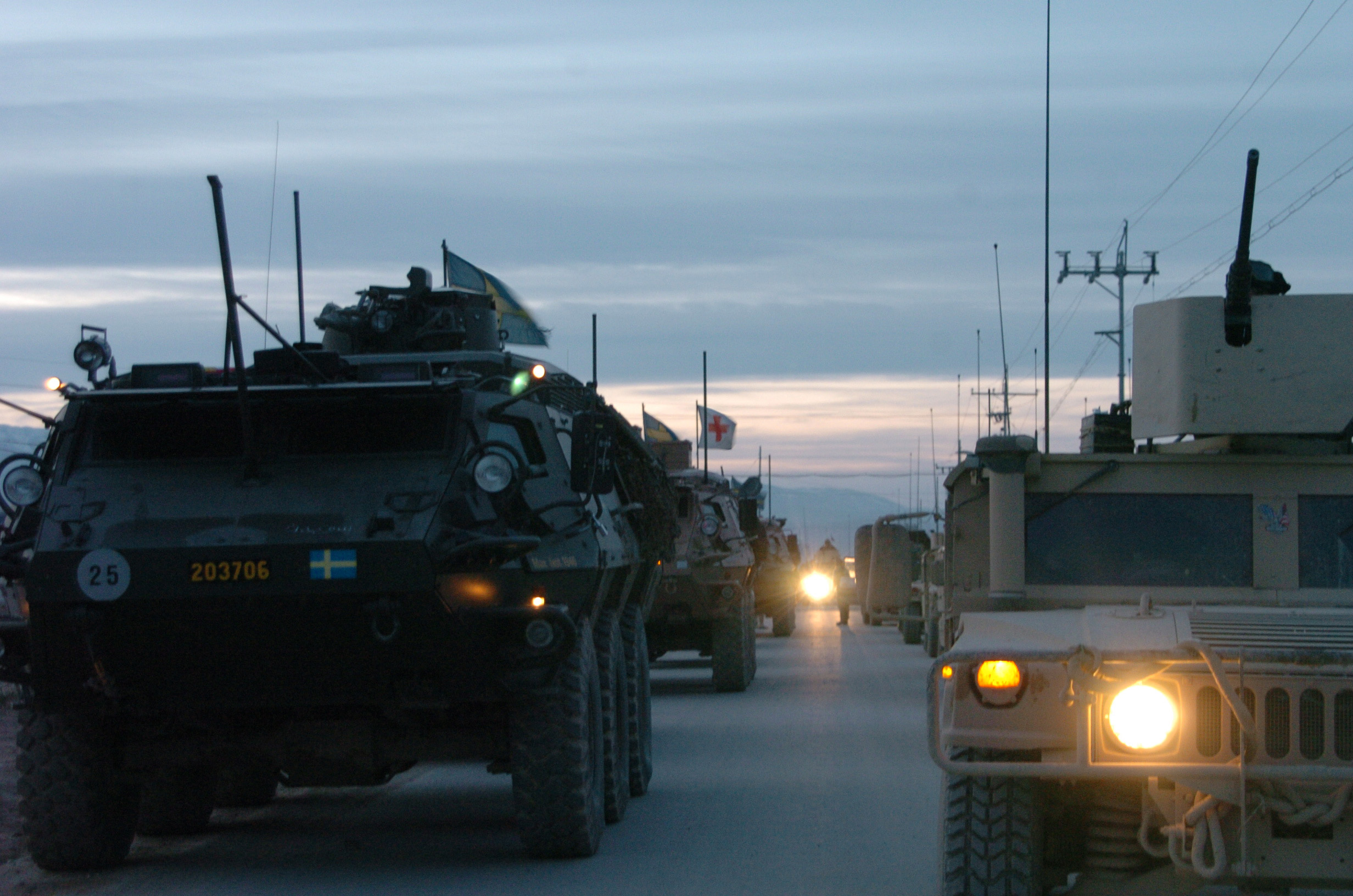 Norwegian, Swedish, Afghan National Army and U.S. military vehicles line up and prepare to convoy back to Camp Span after conducting a medical civic action project in the Mazar-e Sharif region of Afghanistan Nov. 27, 2006. (U.S. Army photo by Sgt. Bertha A. Flores) (Released).